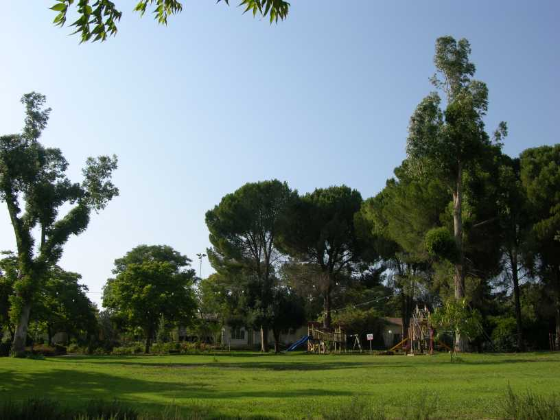 Ma'ayan Barukh playground